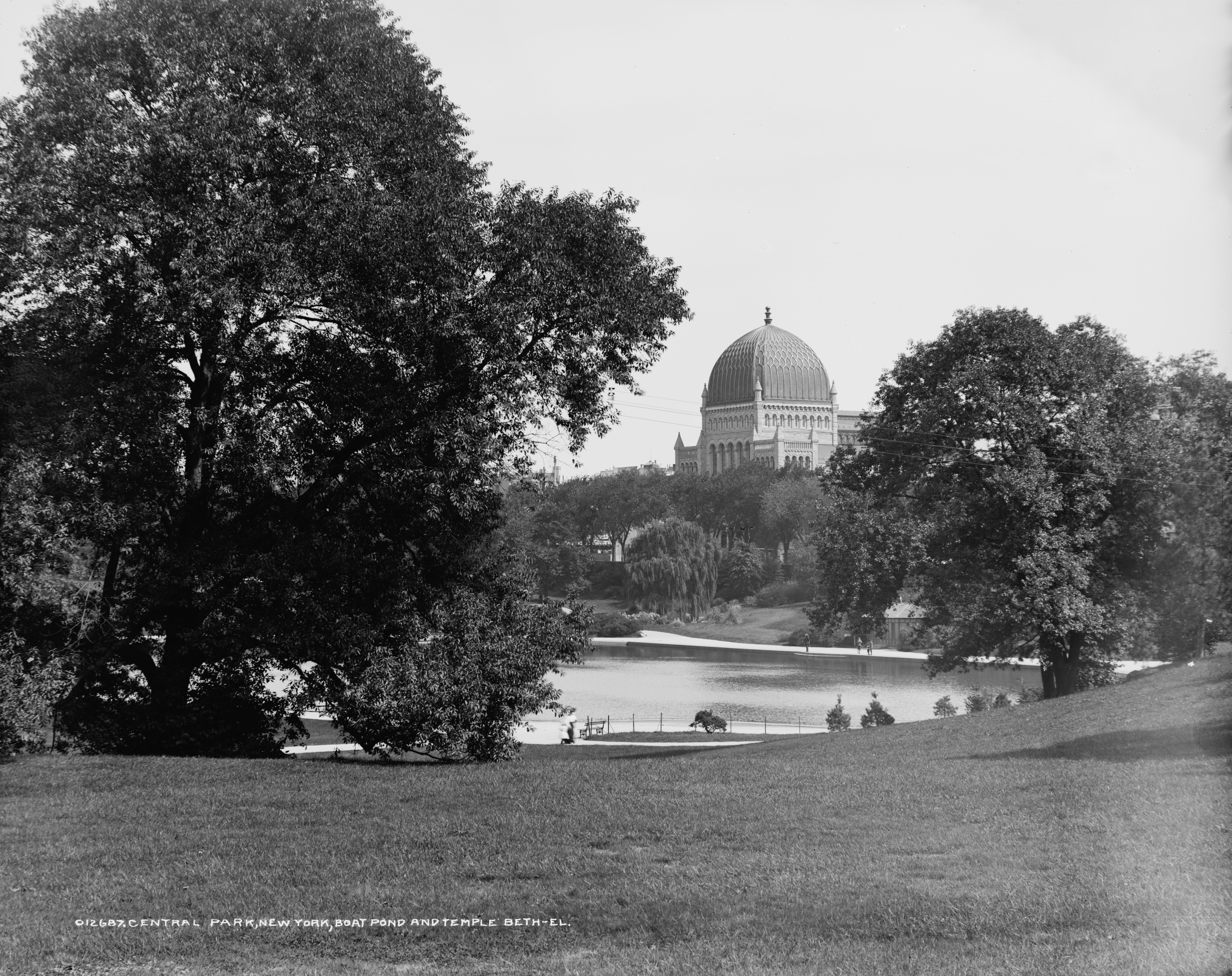 Central Park, New York, boat pond and Temple Beth-El Library of Congress notes: Date based on Detroit, Catalogue J (1901). Detroit Publishing Co. no. 012687. Gift; State Historical Society of Colorado; 1949.